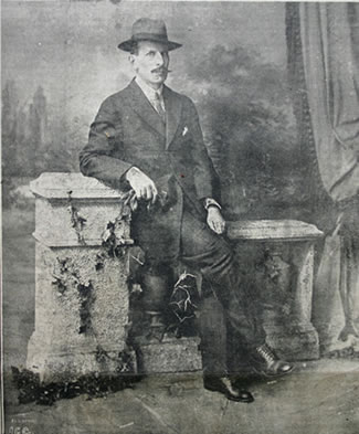 Rafael Uribe Uribe during a trip in Medellín. May, 1914.